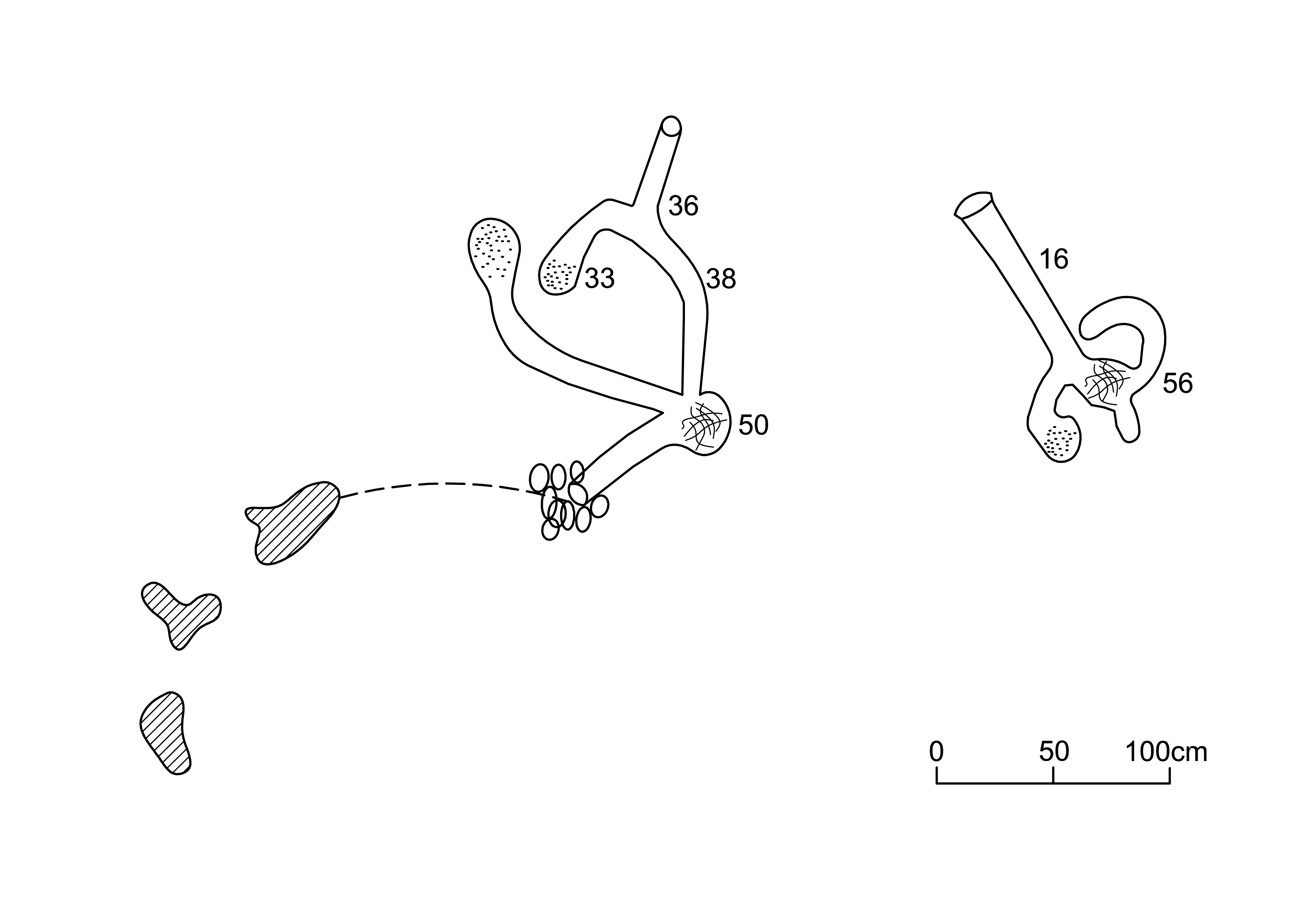 The sketch of a burrow of Octodon degus; (numbers show the depth in cm)